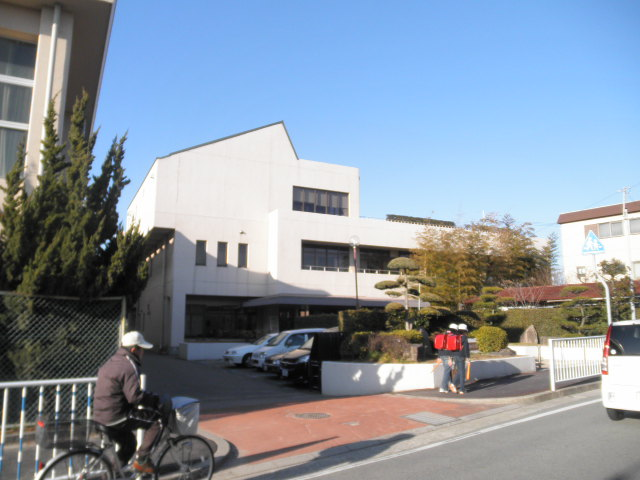 Harimacho welfare Hall